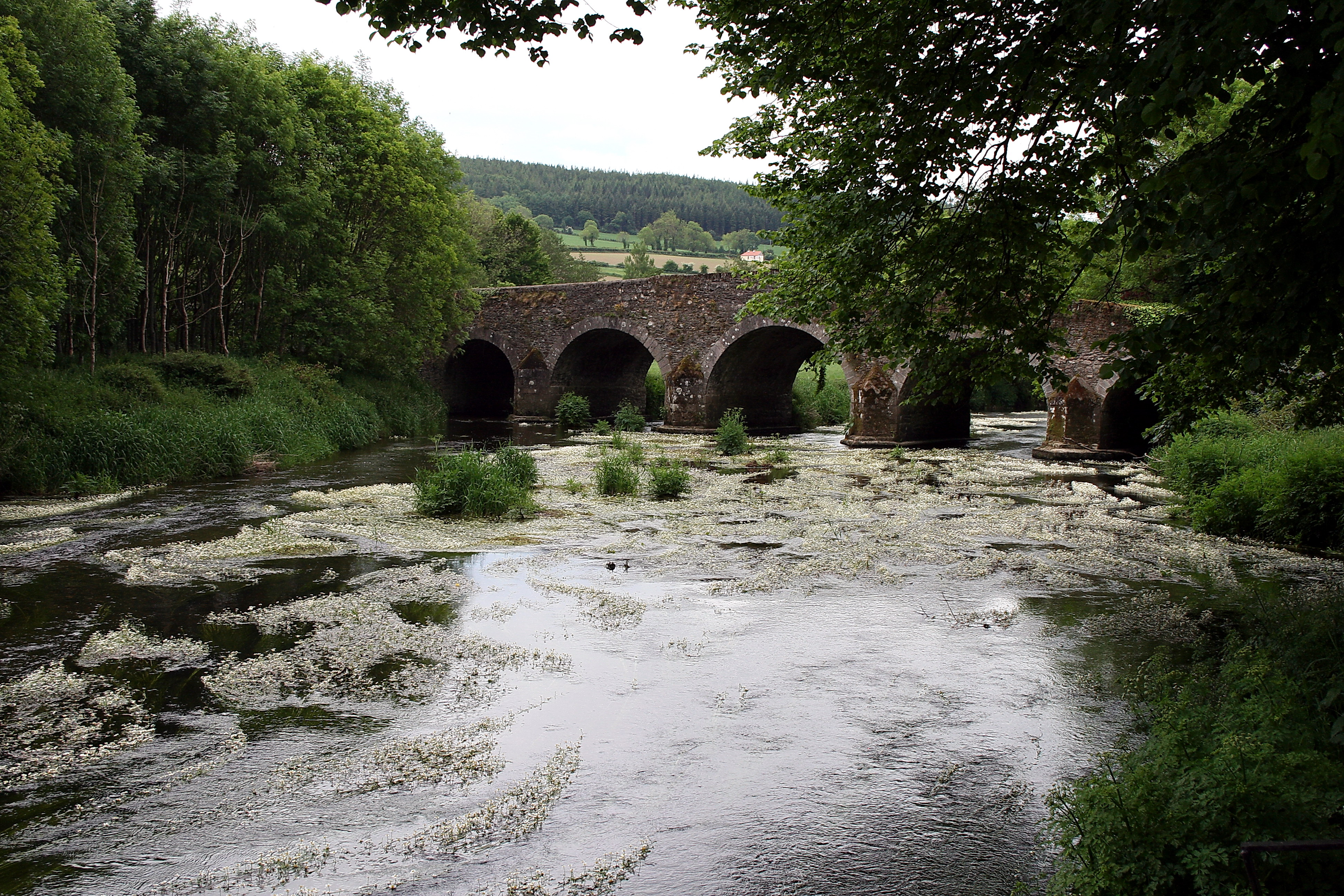 The Derry River (An Dioríoch) and the bridge joining Watch House Village, County Wexford to Clonegal, County Carlow, Ireland. – Note: There's water crowfoot (possibly Ranunculus fluitans) in the river.